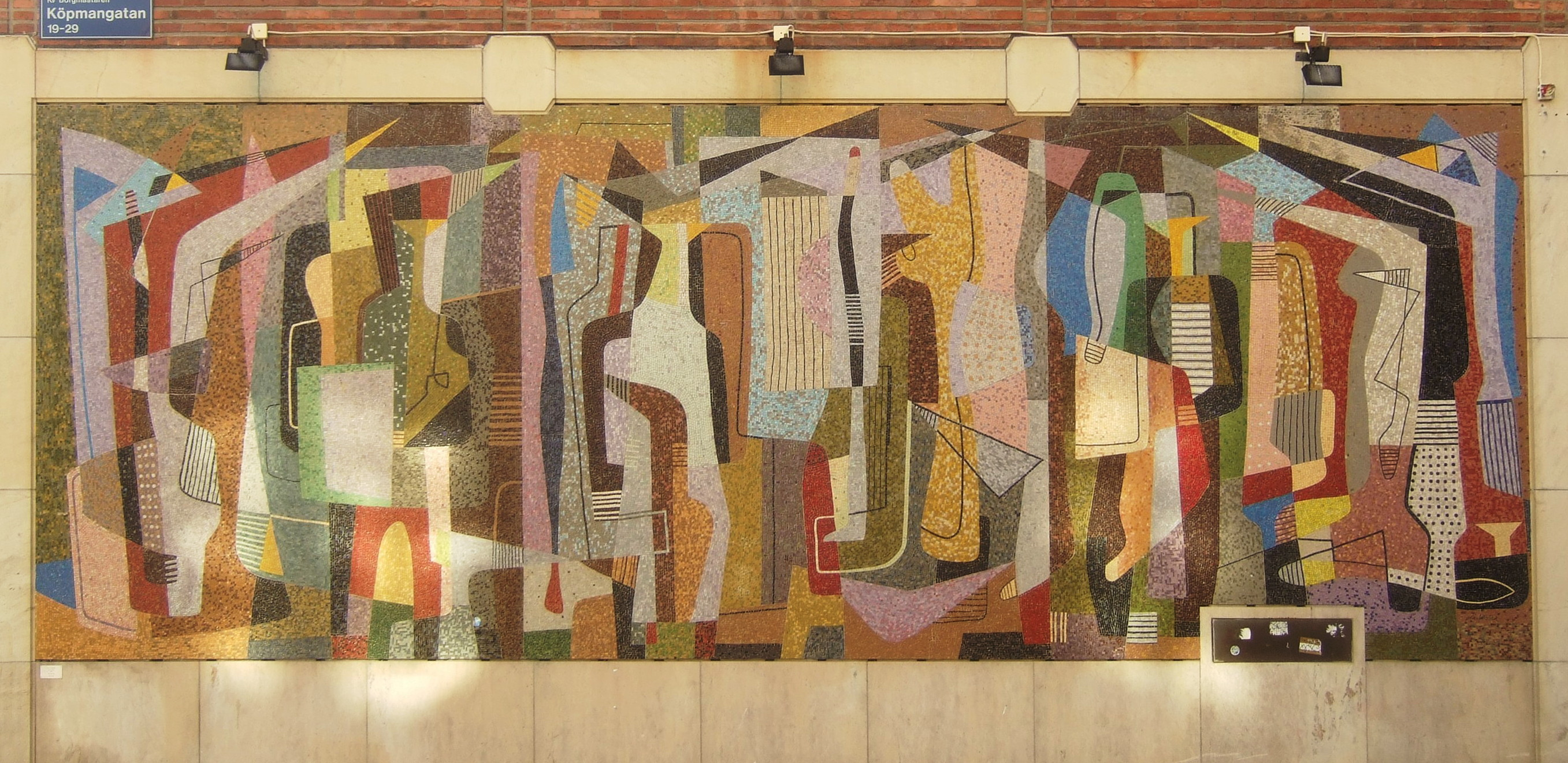 Wall mosaic mural "Folkvimmel" ("Crowd") — by Nils Wedel, created in 1955 At the "Posthuset Sundsvall" — at Köpmangatan 19 in Sundsvall, Sweden.